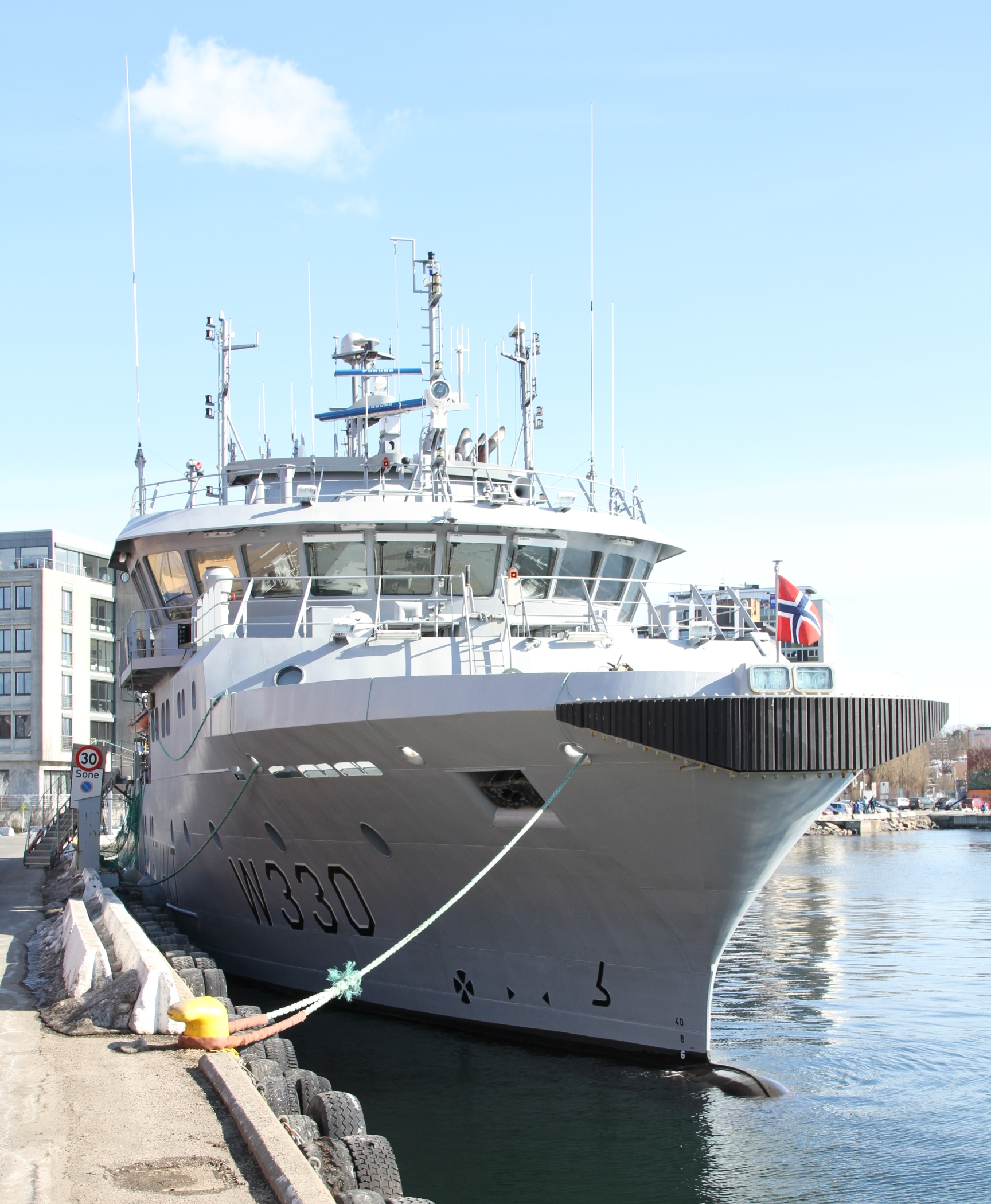 Image of the norwegian Coast Guard ship KV "Nornen", at anchor in Kristiansand (Norway)